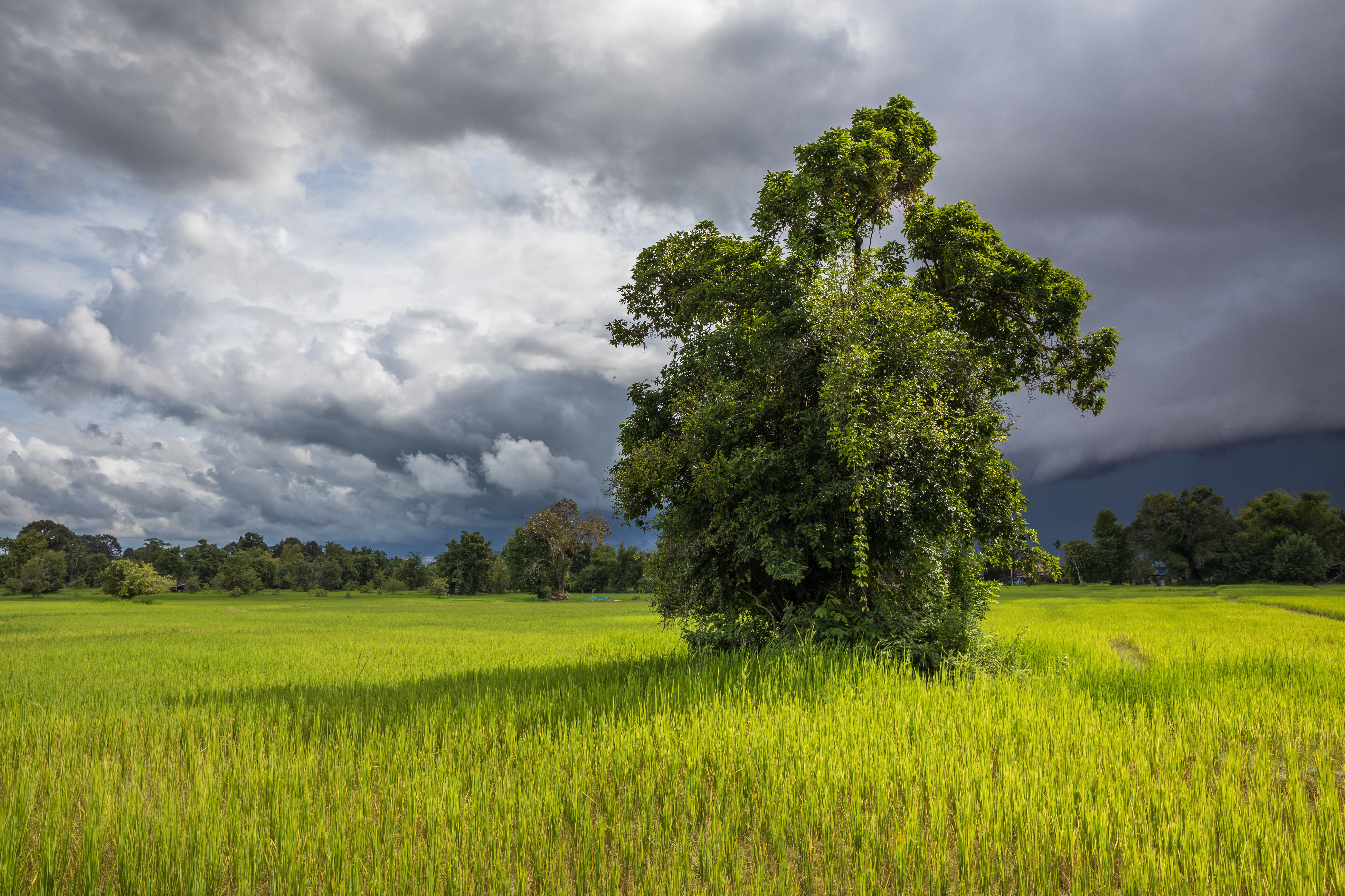 Leafy tree in the green paddy fields of Don Det (Laos), under a heavy cloudy sky in August 2017 during the monsoon.